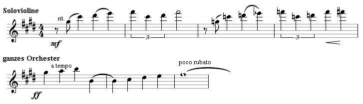 Bar 321 - 326 from George Gershwin's "Rhapsody in Blue"